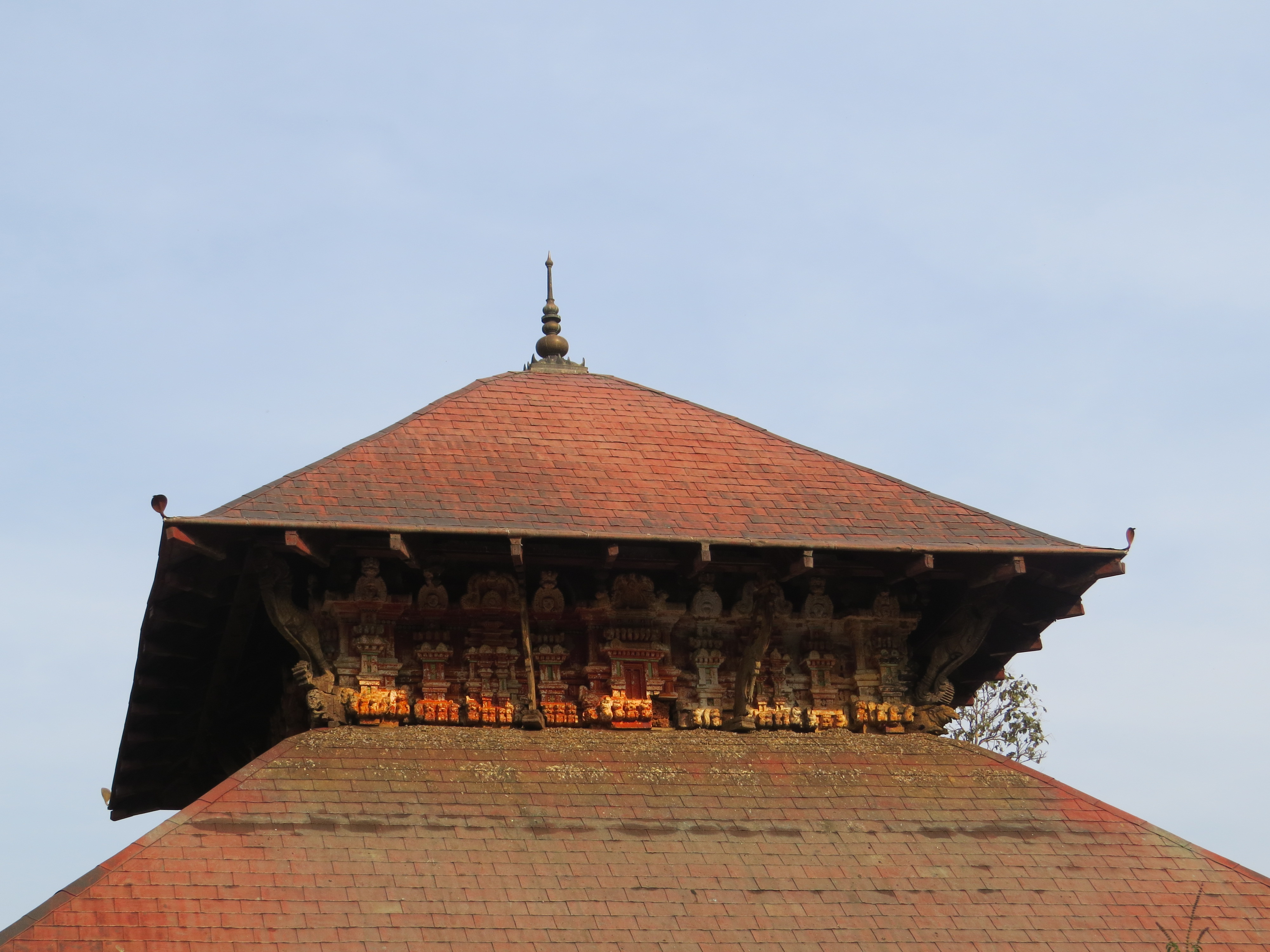 Thodeekalam Siva Temple and surroundings